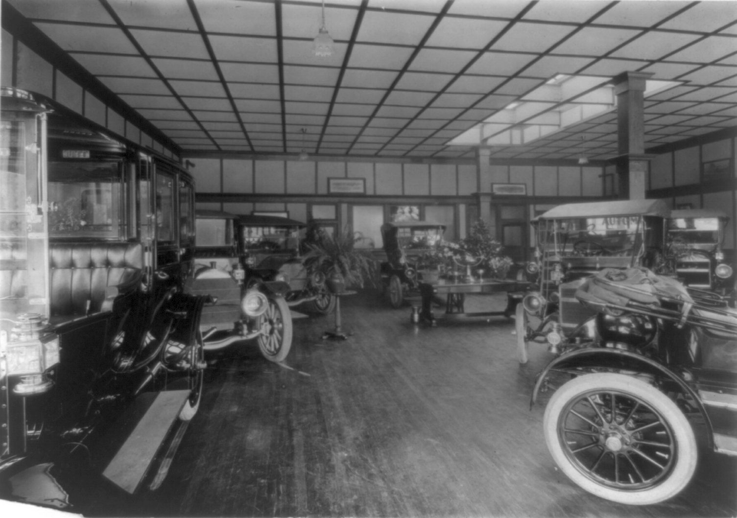 Maxwell Briscoe show room. Room showing Maxwell automobiles, and wallboard manufactured by The Beaver Co.